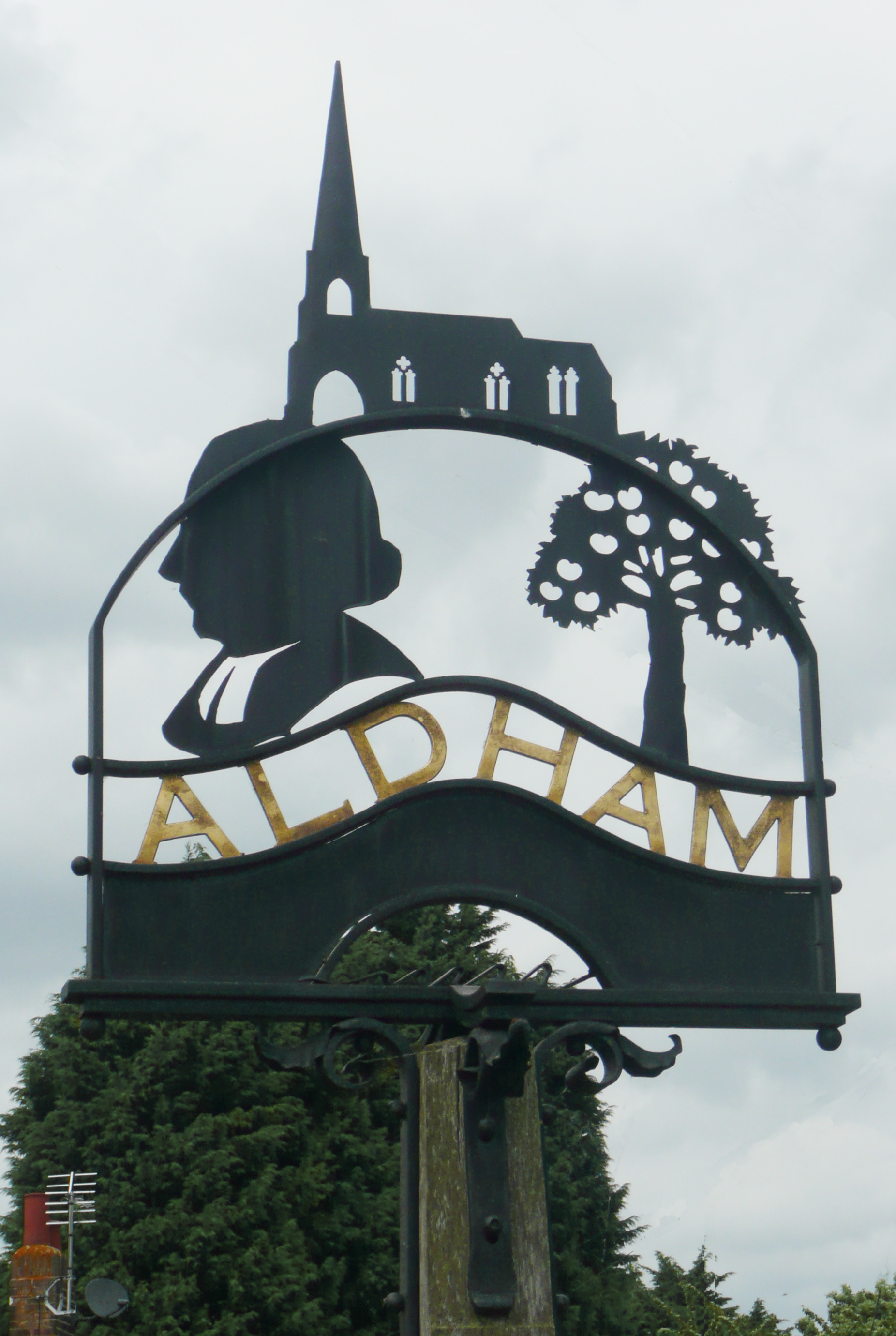 A view of the village sign on public display in Aldham, Essex in the United Kingdom.